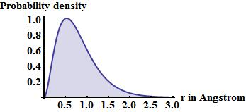 Density of probability - electron in hygrogen atom - 1s state